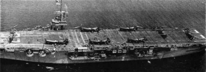 The U.S. Navy escort carrier USS Palau (CVE-122) with Piasecki HRP-1 helicopters on deck in 1951.